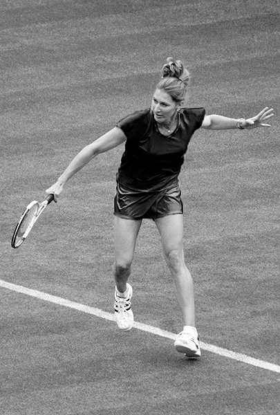 Steffi Graf using her backhand